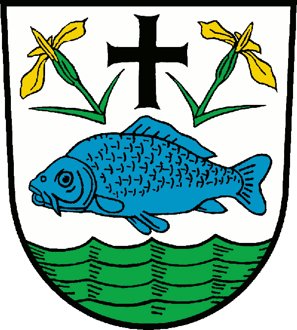 Coat of arms of Teupitz